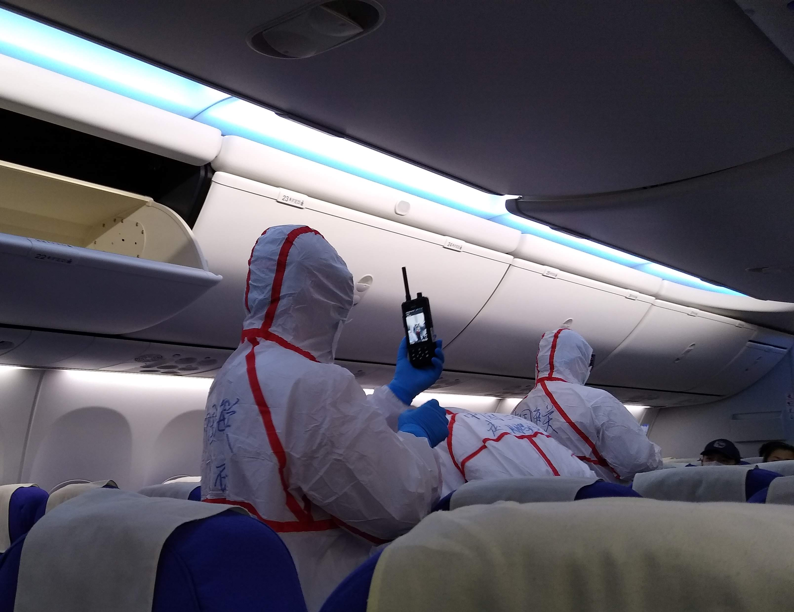 Quarantine staff (检疫人员) wearing protective equipment to screen passengers on a plane after landing at Shenzhen Bao'an International Airport in March 2020, amid the COVID-19 pandemic.